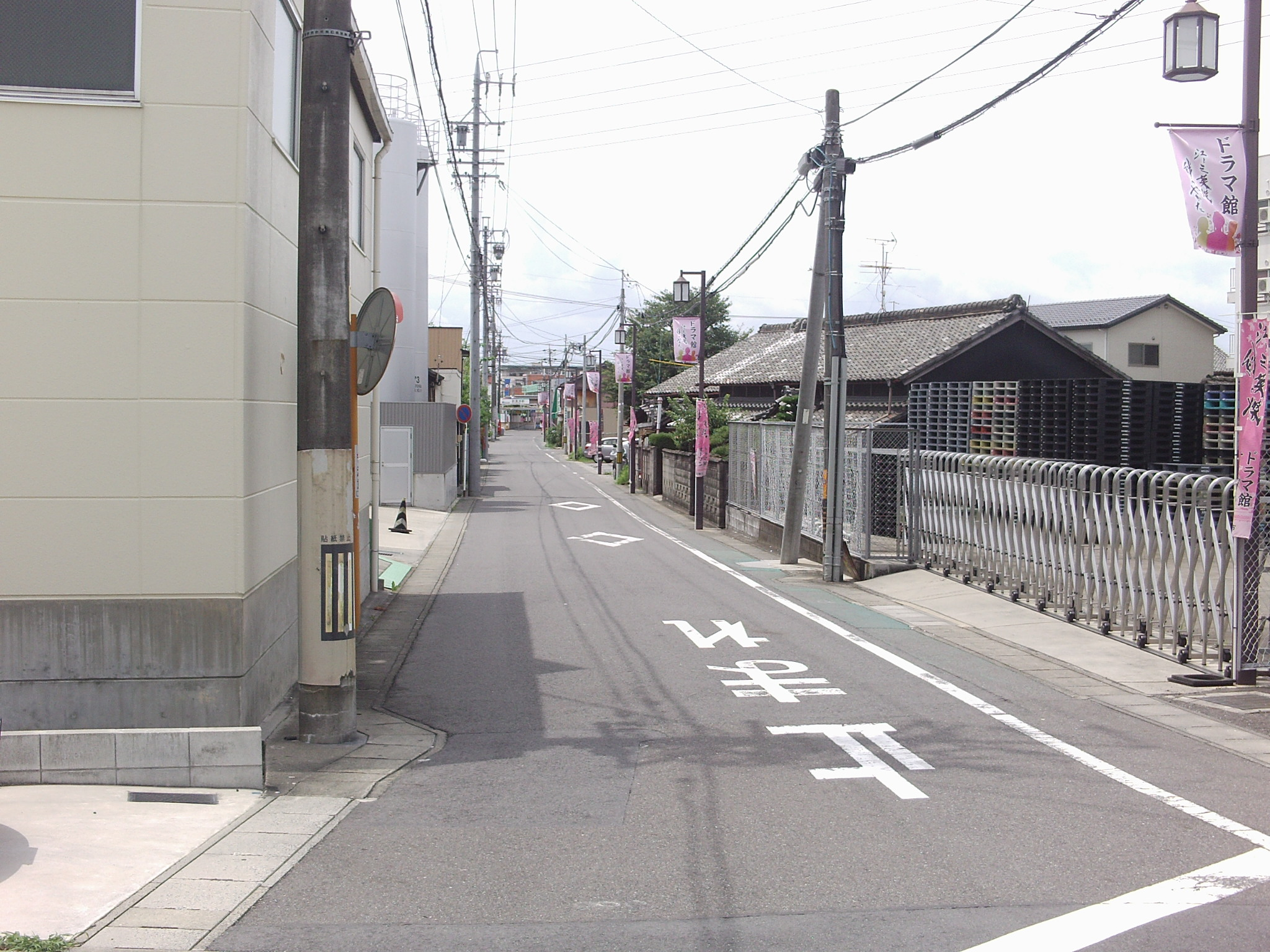 Aichi prefectural road No.142 in Kiyosu, Kiyosu, Aichi.